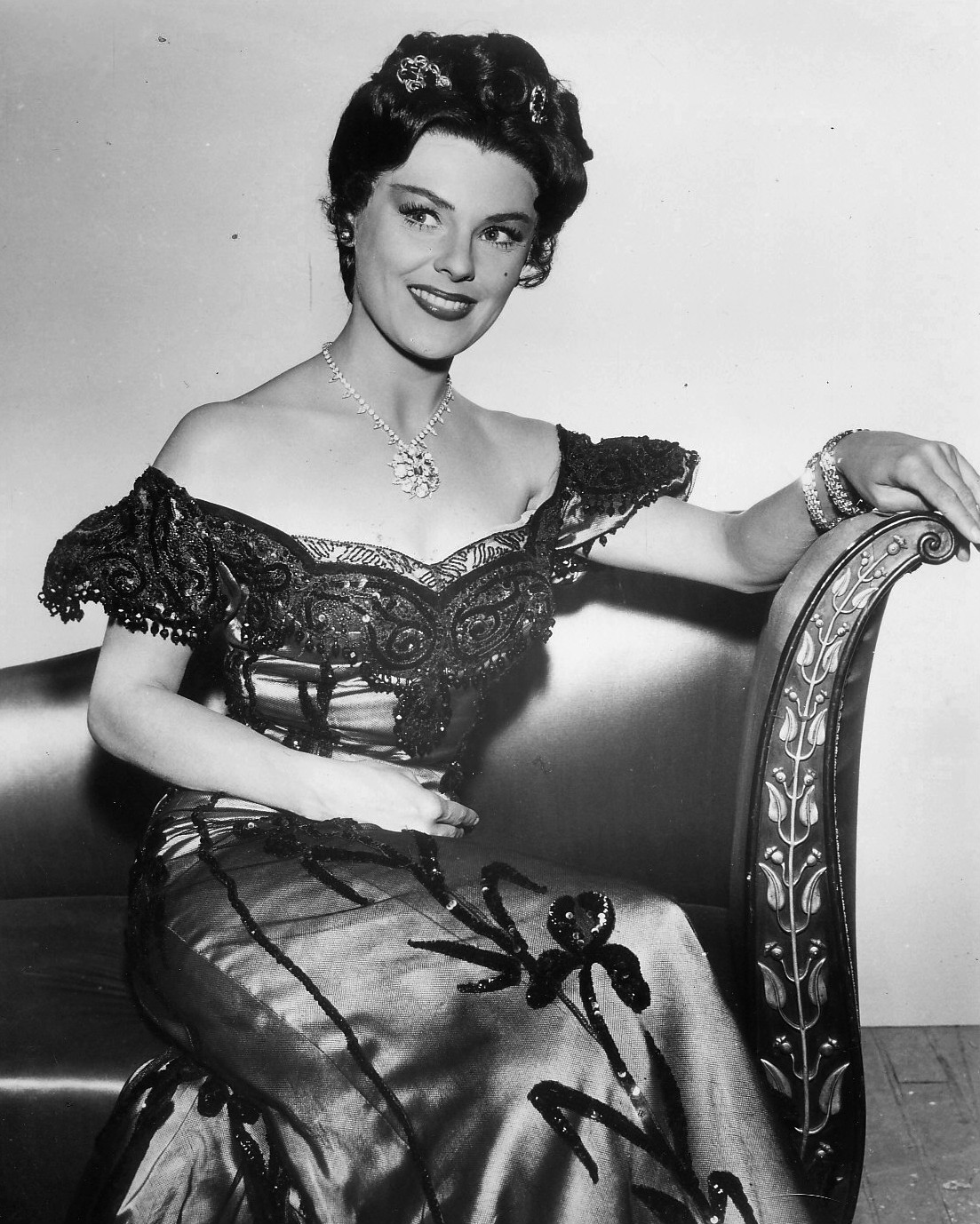 Publicity photo of actress Kathleen Crowley from the television program Maverick.